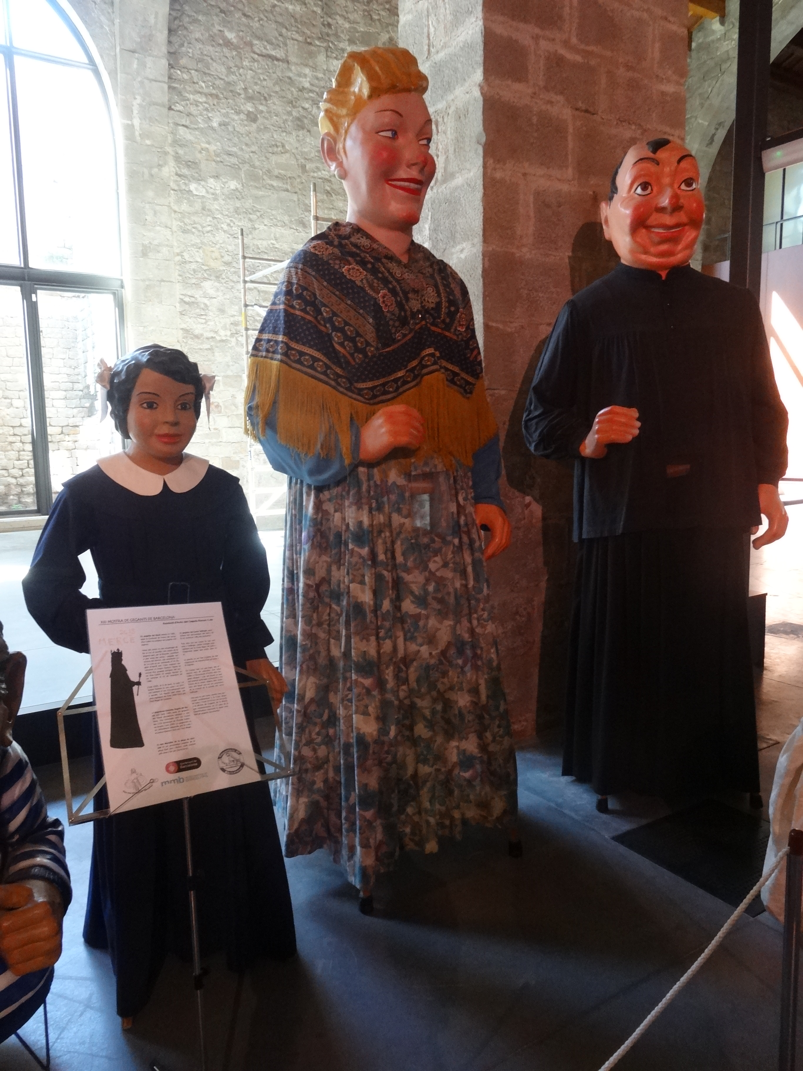 Exhibition of Giants at the Museu Marítim, Barcelona, 2013.